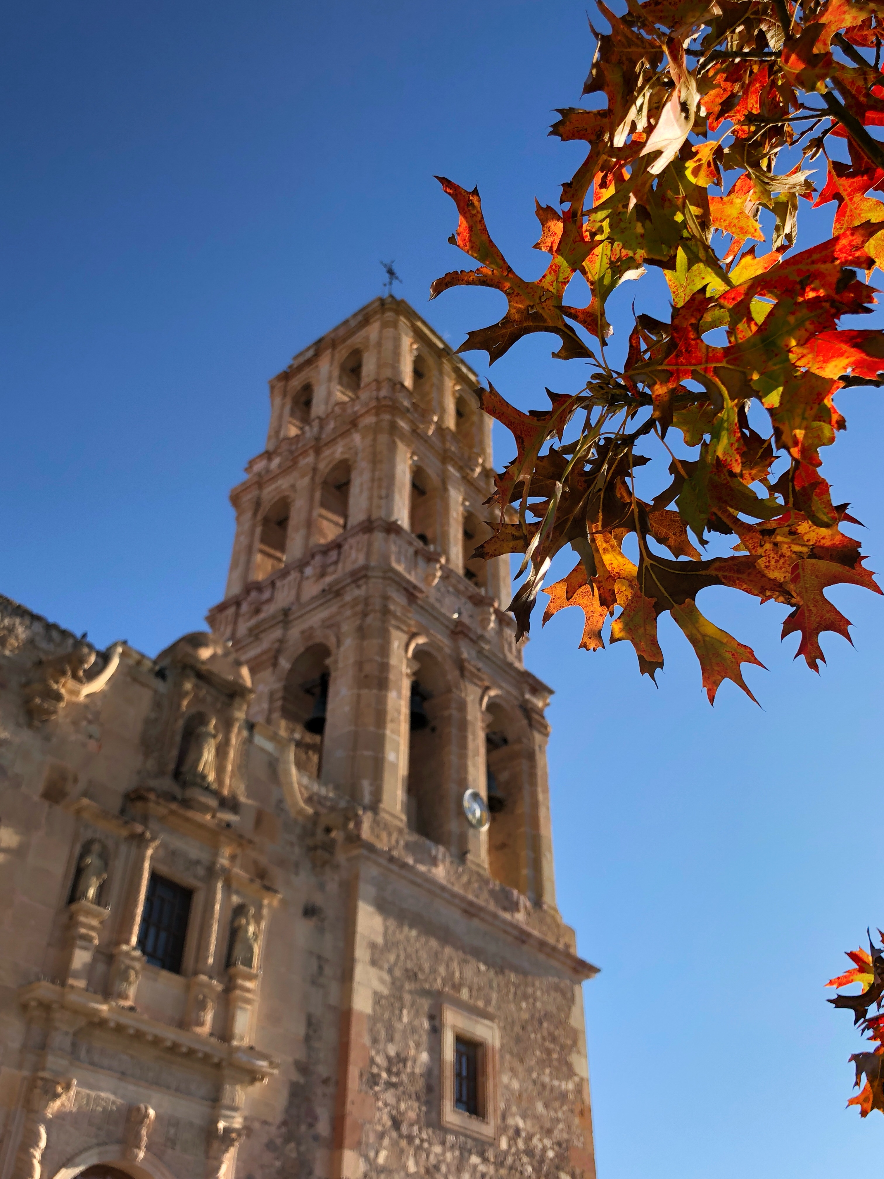 Sombrerete, Zacatecas